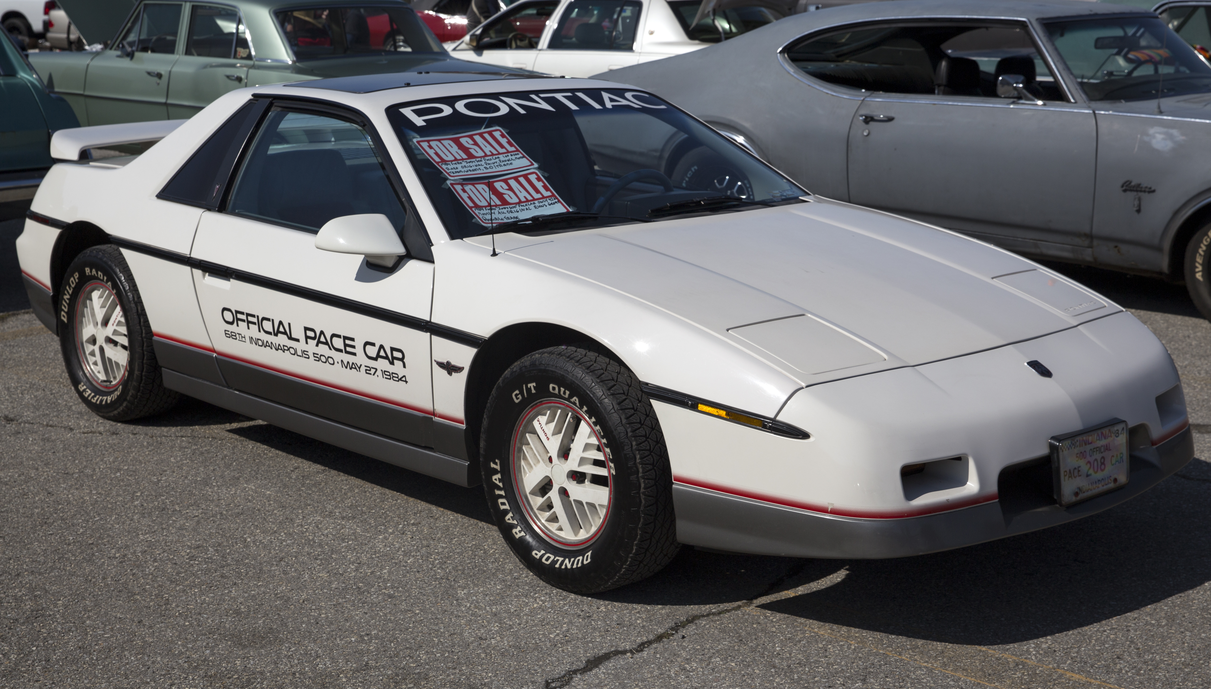 A 1984 Pontiac Indy Fiero at the Belmont Race Track.